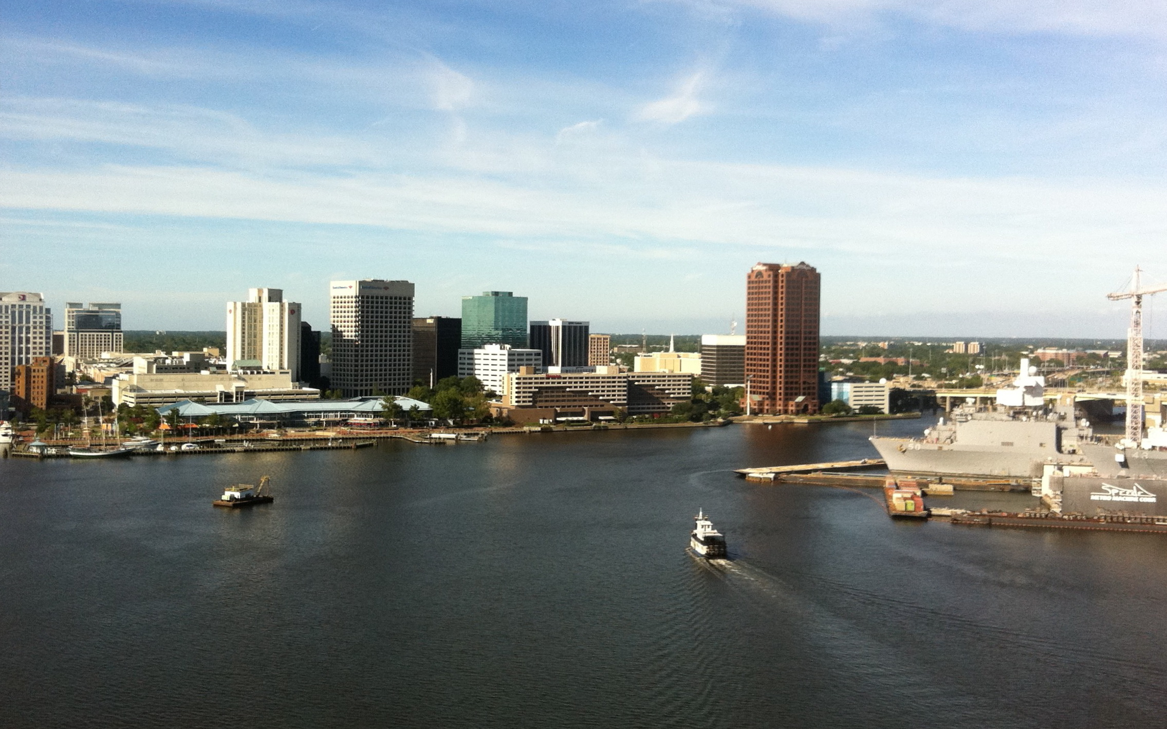 Skyline of Norfolk, VA, USA as seen from across the Elizabeth River